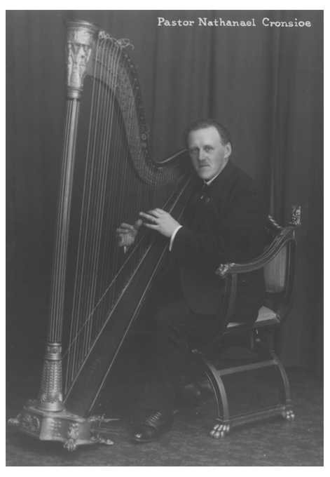 Nathanael Cronsioe (1883-1937)